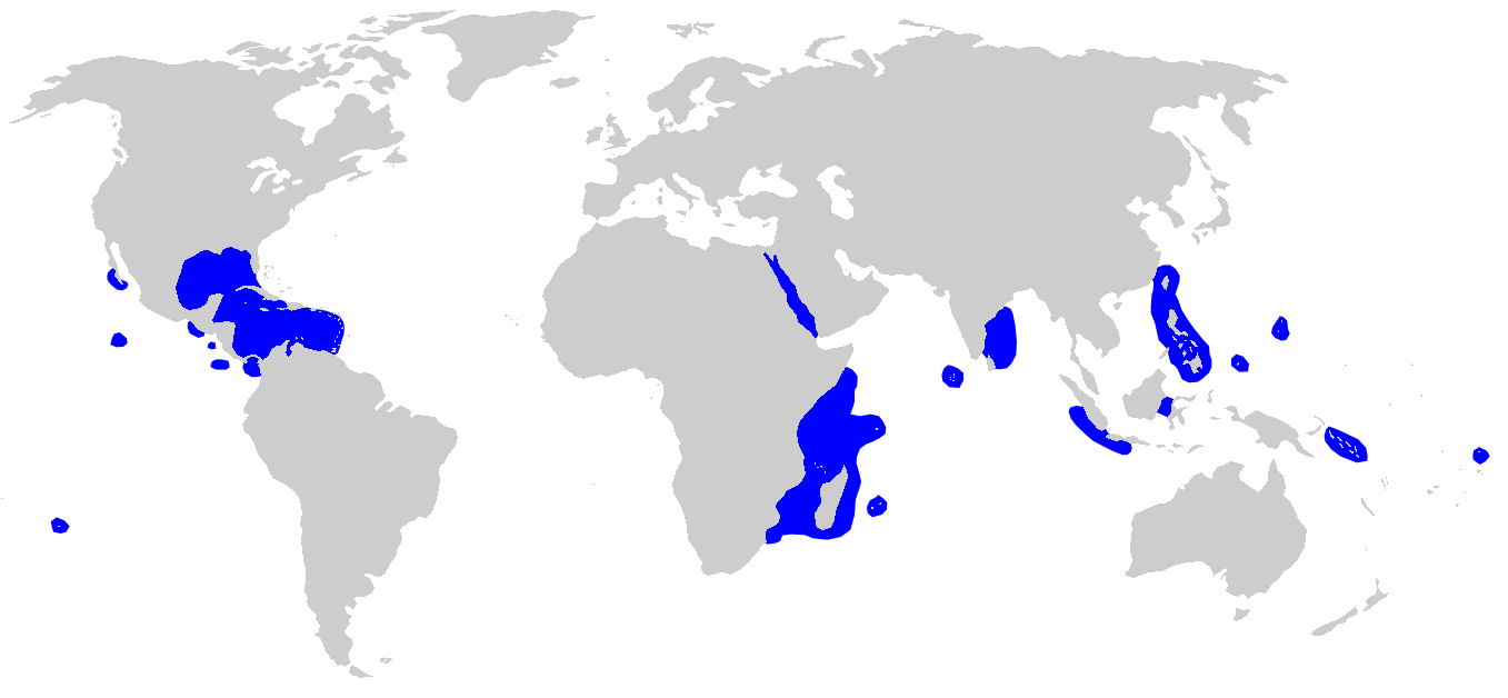 Distribution map for Carcharhinus albimarginatus